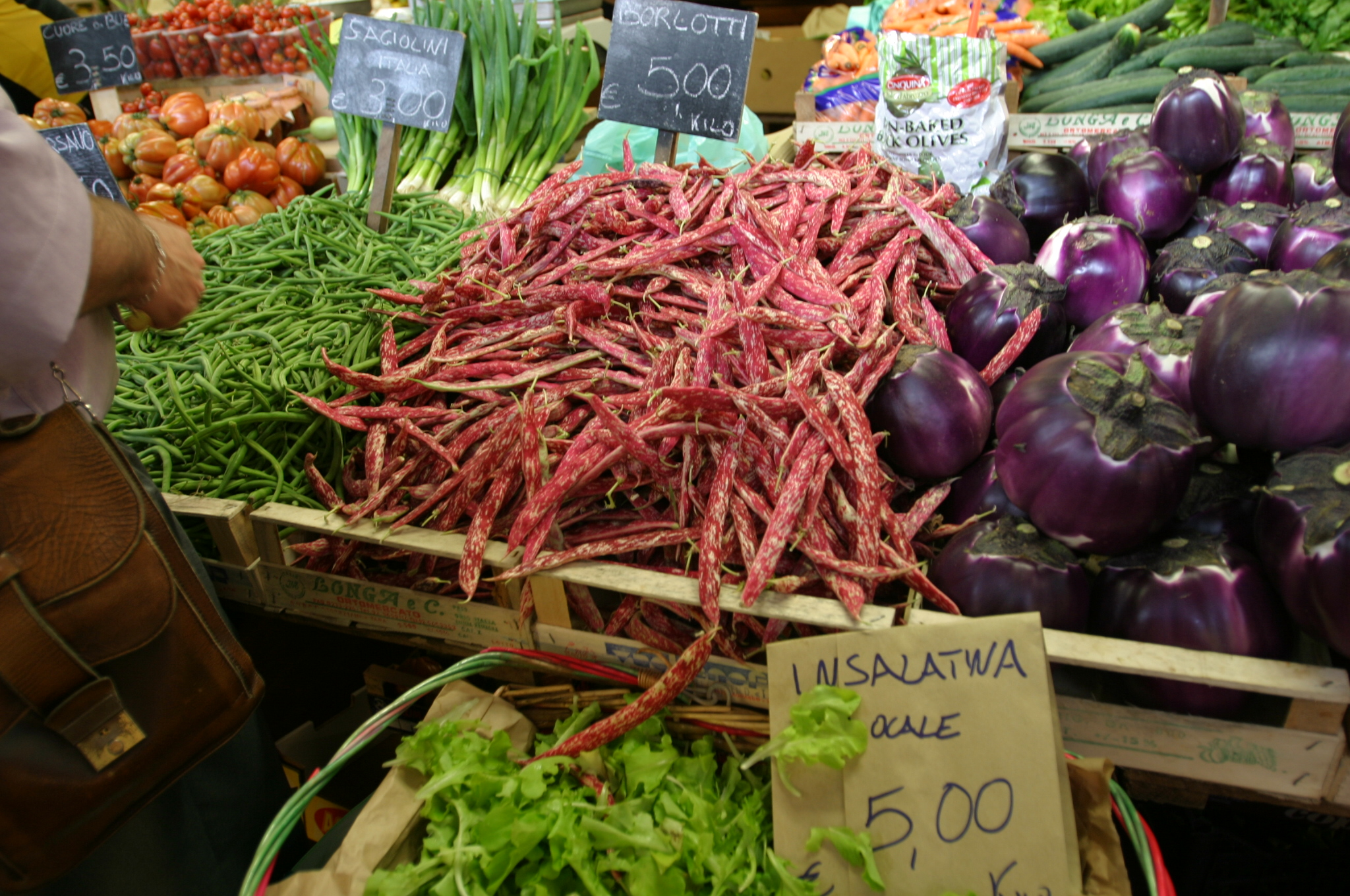 Ventimiglia food market, Italy